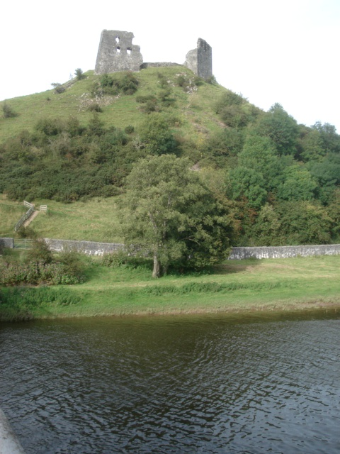 Dryslwyn Castle Viewed from the river bridge looking northwards. In this perfectly peaceful setting, it's hard to imagine 11,000 troops surrounding the castle in the 1287 siege.